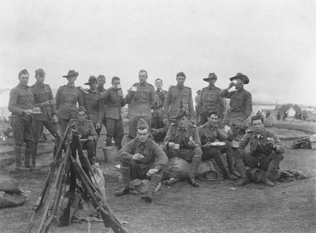 Tasmania. c. 1913. Informal group portrait of members of the militia, probably from either the 16th or 41st Batteries, Australian Field Artillery (AFA), Australian Military Forces (AMF), taking a meal break during a training camp. They are seated on their kitbags while eating biscuits with their drinks. In front of them their rifles have been placed together in a stack. (AWM P00046.001)